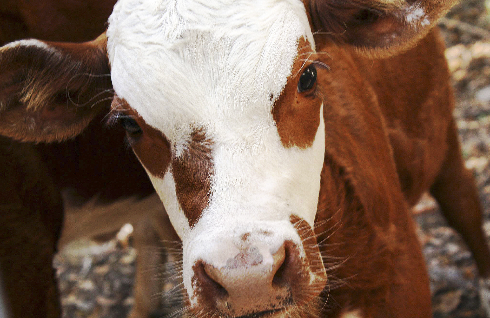 Male calf in Riverview, Florida